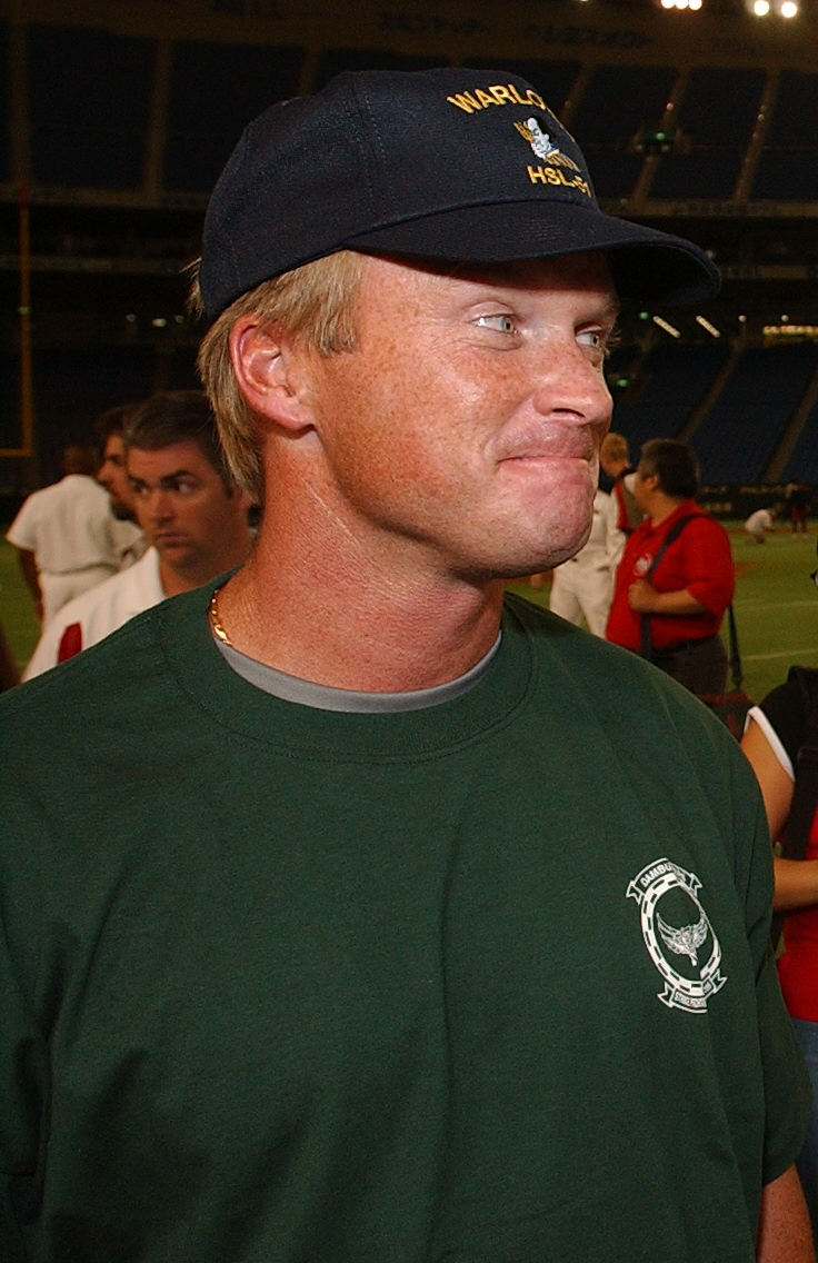 Tokyo, Japan (Aug. 1, 2003) -- Cmdr. Brian Corey, Executive Officer of the “Golden Dragons” of Strike Fighter Squadron One Ninety Two (VFA-192), discusses coaching strategies in the Tokyo Dome with Head Coach Jon Gruden of the National Football League (NFL) Tampa Bay Buccaneers. Personnel assigned to Carrier Air Wing Five (CVW-5) were invited to the dome to meet with the players of both the Tampa Bay Buccaneers and The New York Jets. Both teams will meet in tomorrow’s Tokyo Bowl for a preseason National Football League (NFL) game.